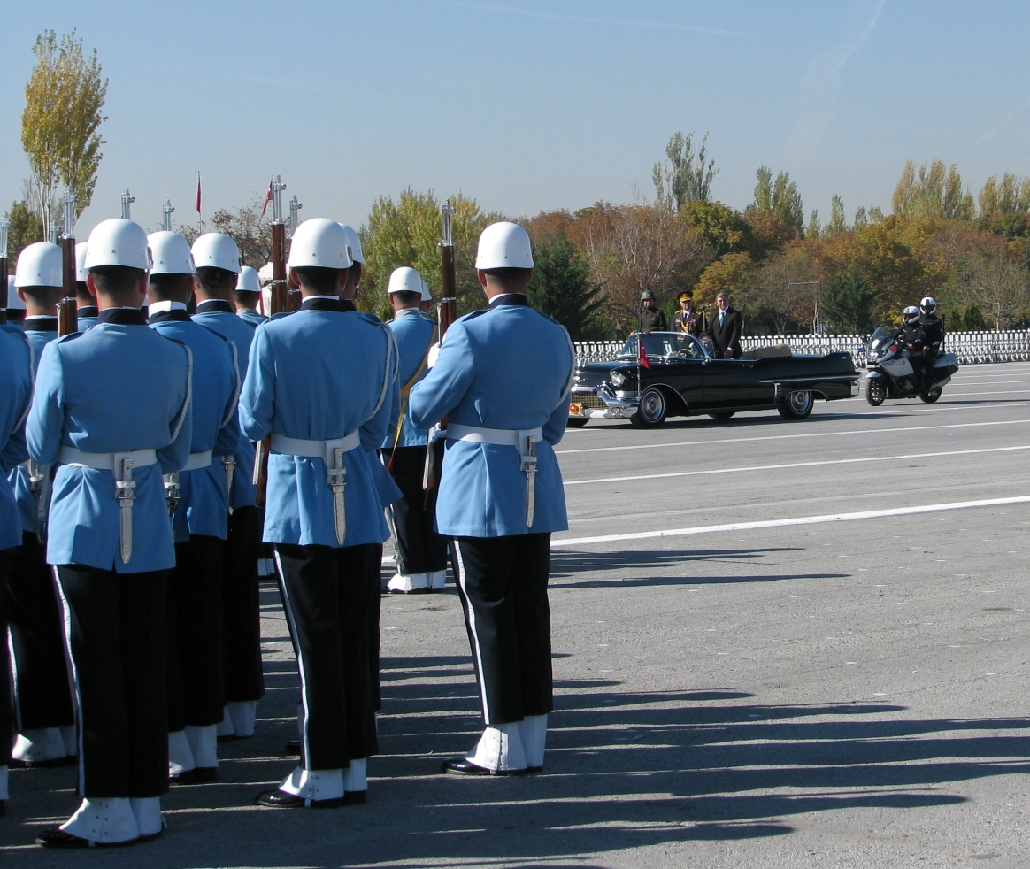 Turkish Presidential Guard Regimen